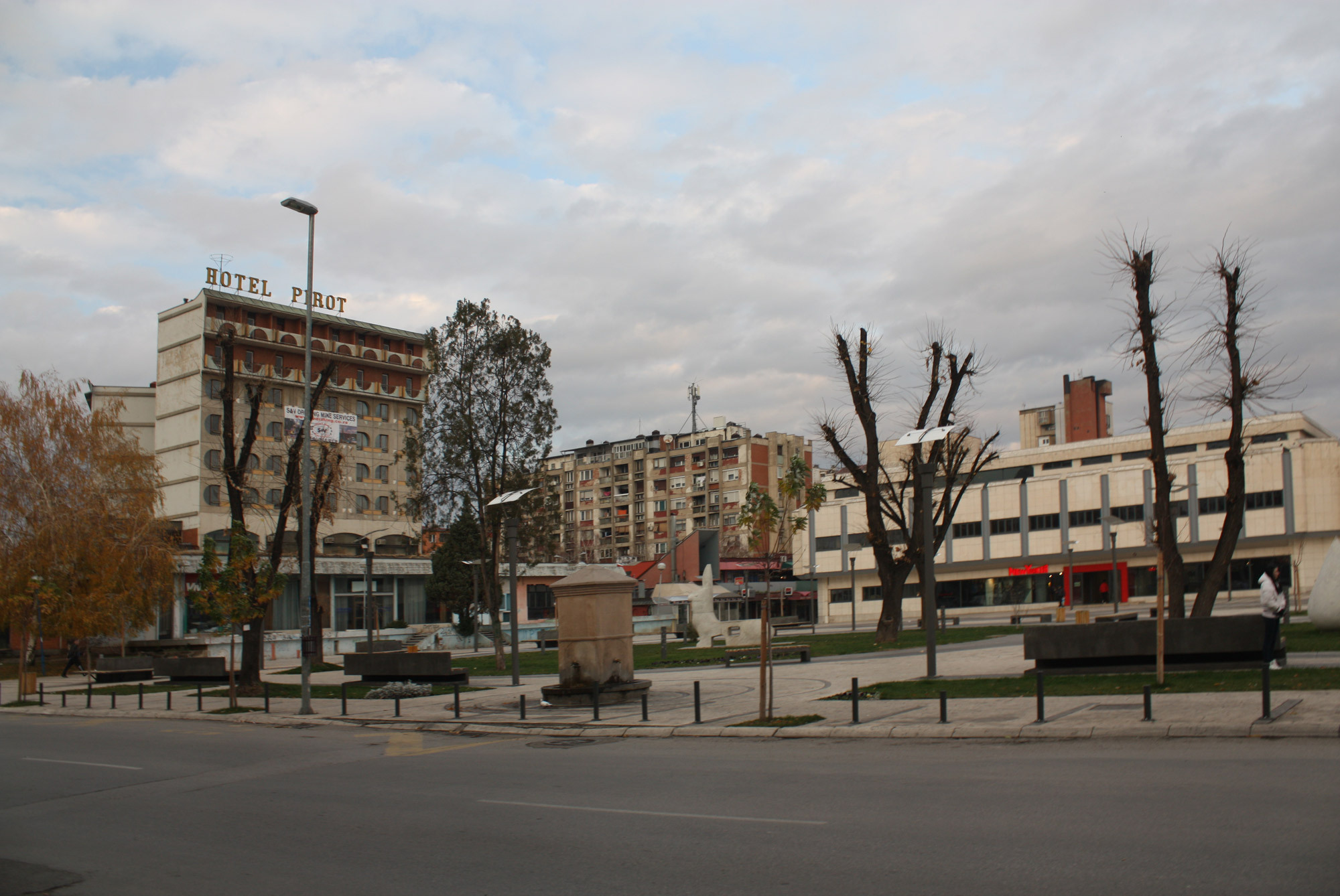 Pirot town center with hotel Pirot